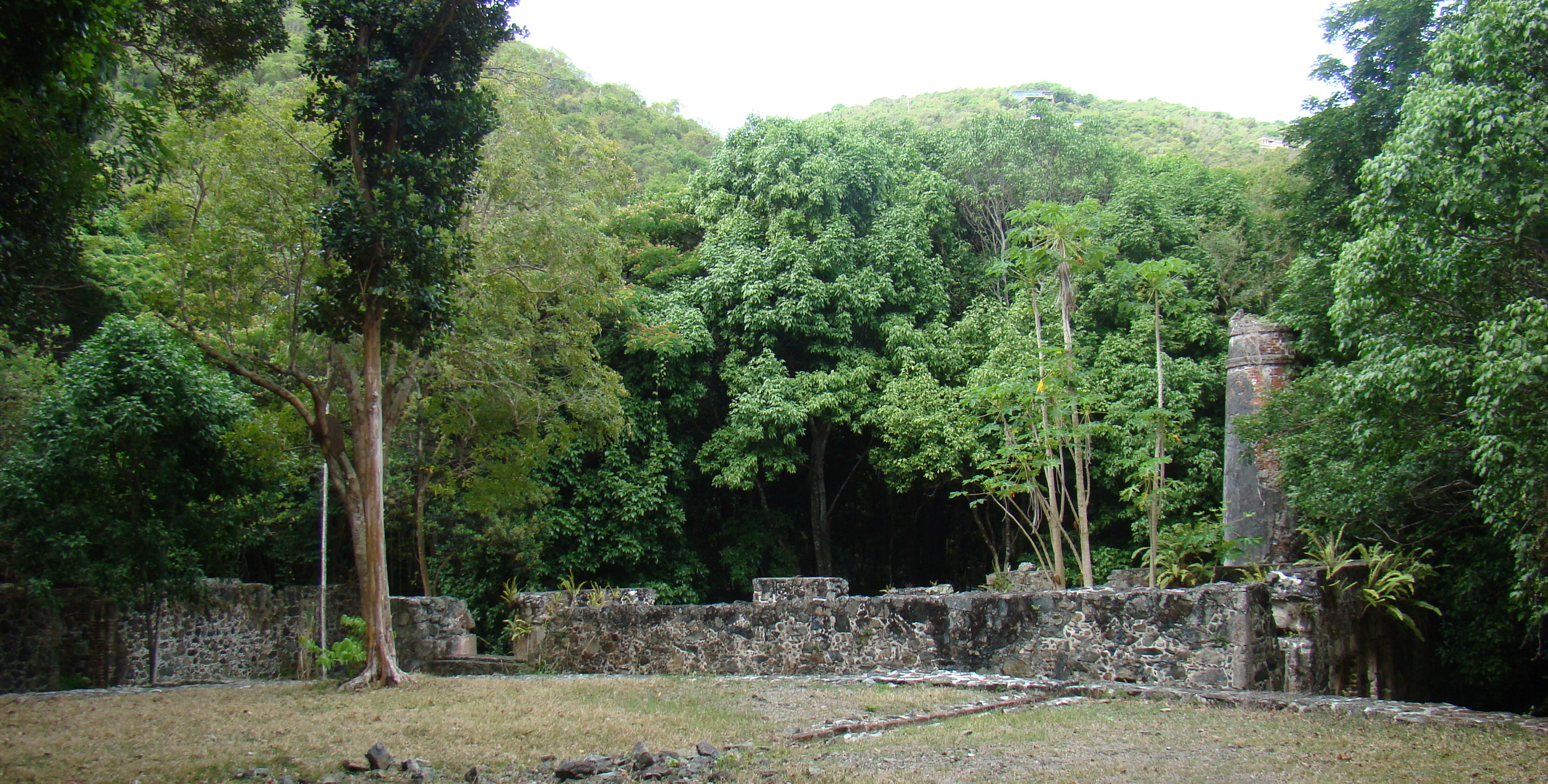 Cinnamon Bay Plantation — historic ruins located in Virgin Islands National Park on Saint John, United States Virgin Islands.